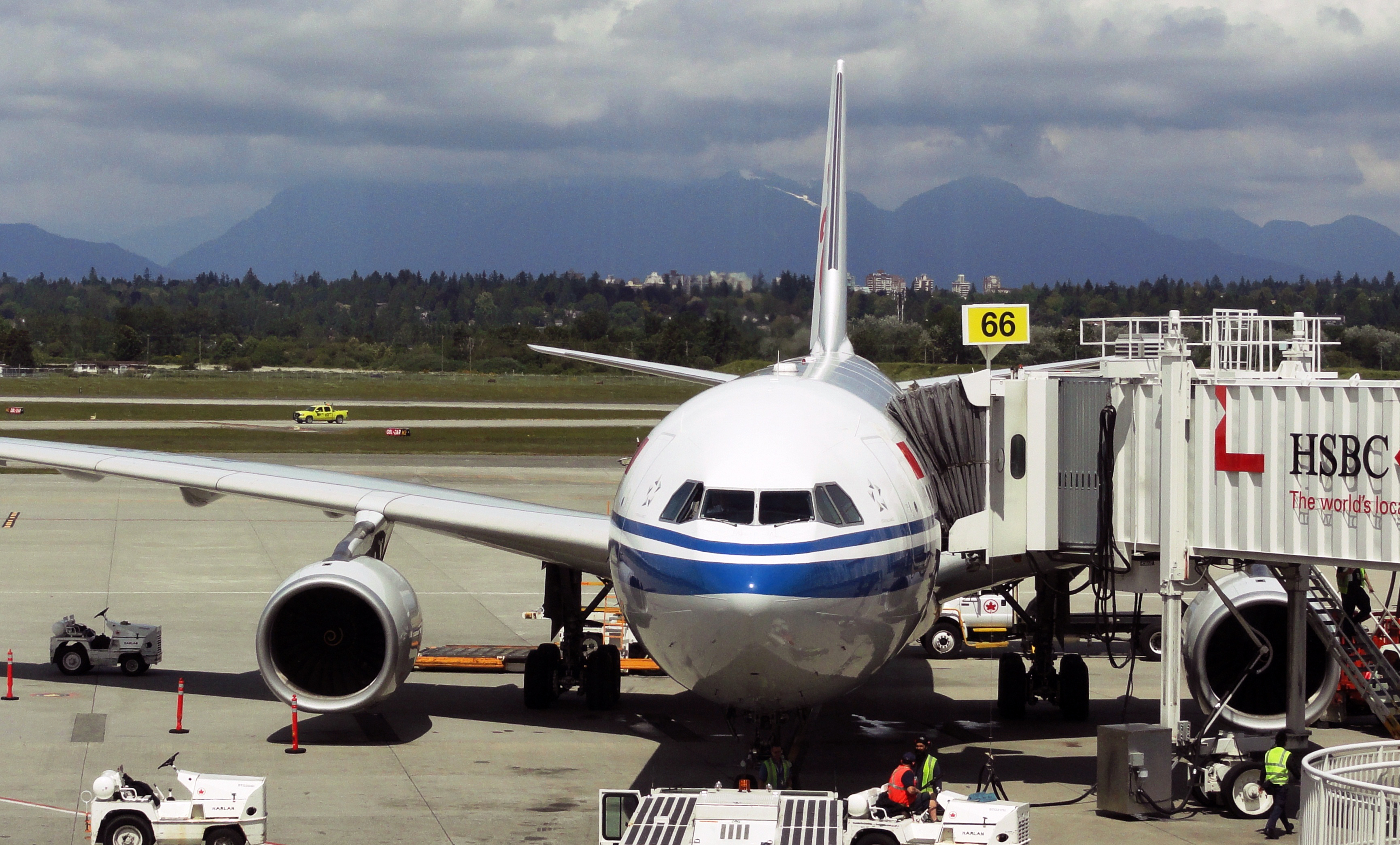 Air China Airbus A330-200 at Vancouver International Airport